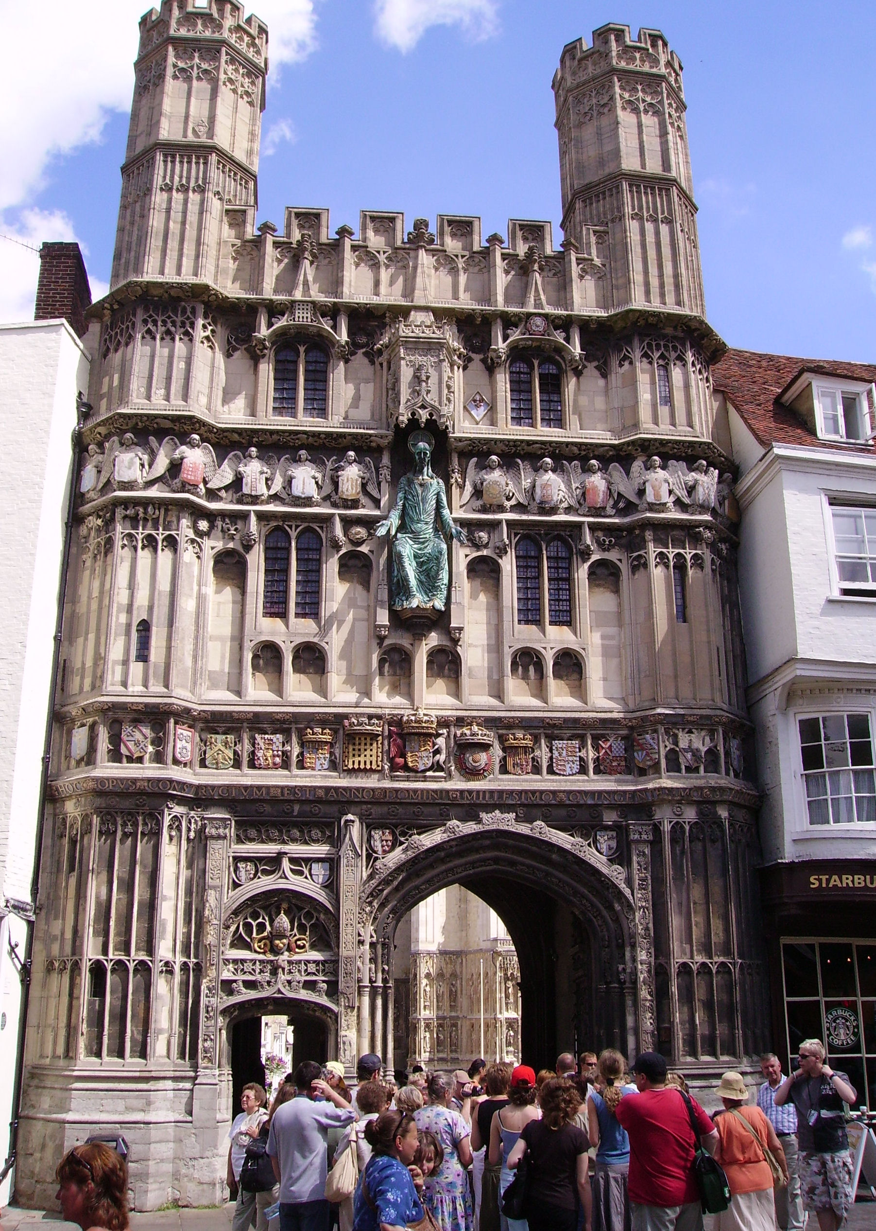 Canterbury Cathedral in Canterbury; United Kingdogm